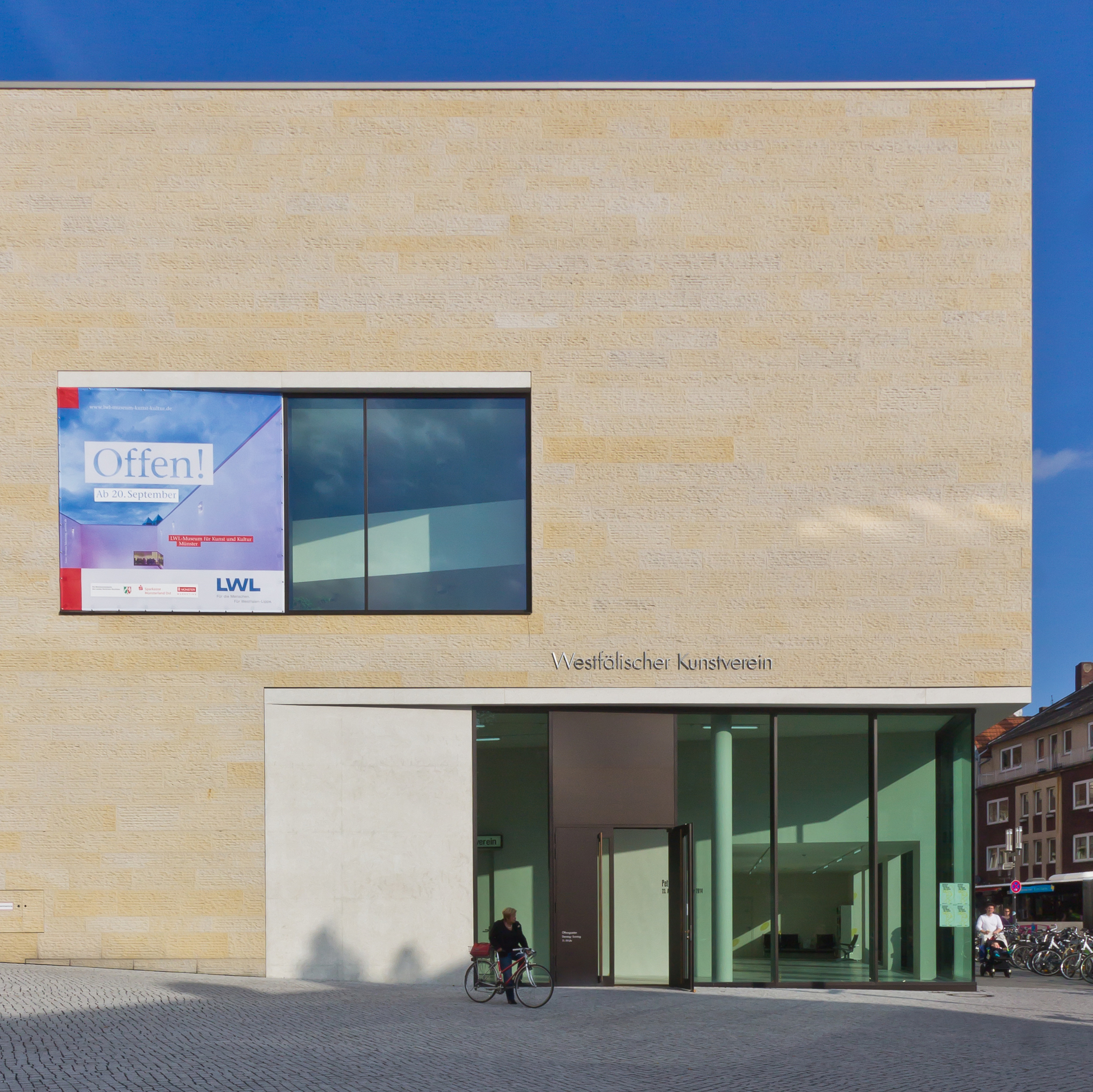 LWL-Museum für Kunst und Kultur Münster, Neubau. Foto: Eingang zu den Räumen des Westfälischen Kunstvereins